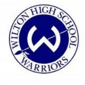 Wilton High School emblem